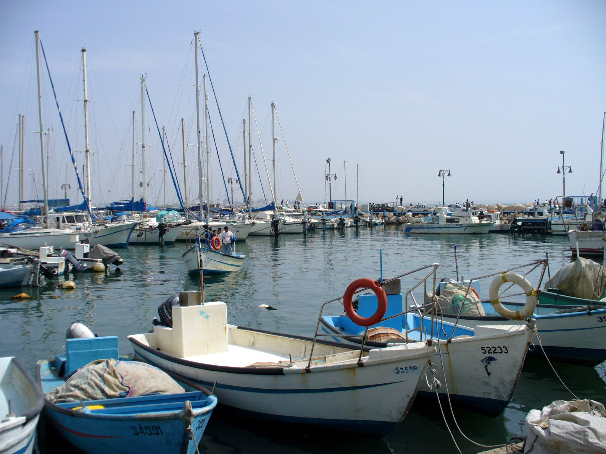 Seaport in Akko (Acre) Israel